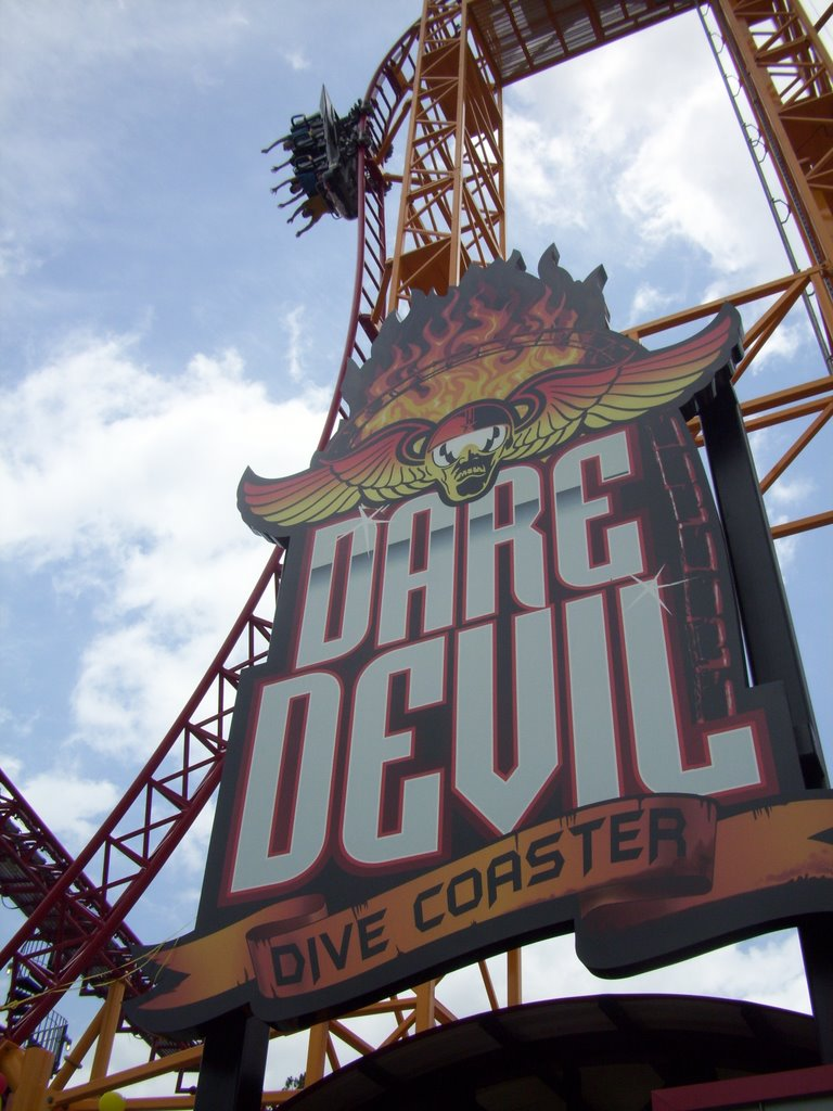 The entrance and first drop of Dare Devil Dive, a roller coaster at Six Flags Over Georgia.